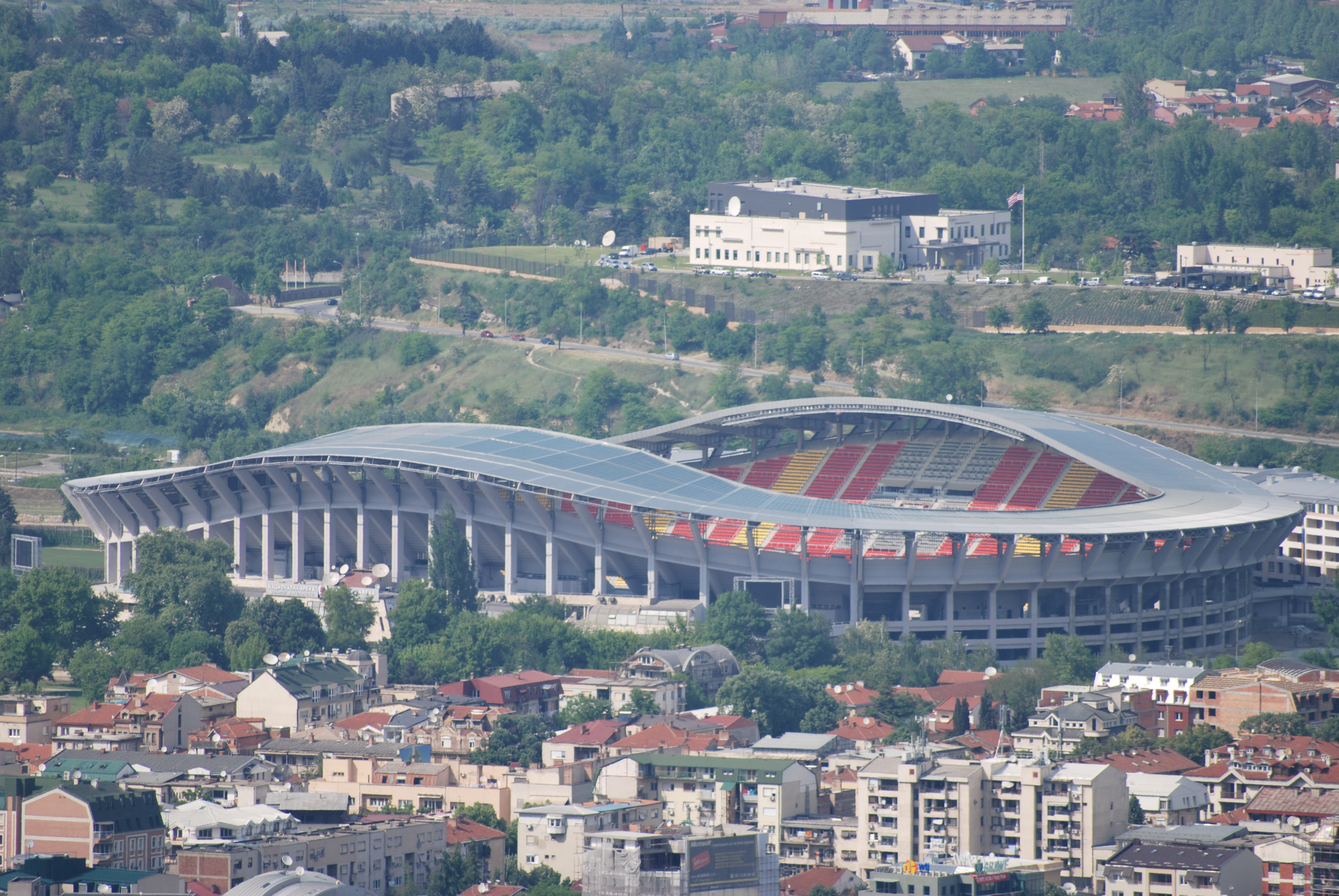 Skopje, Macedonia